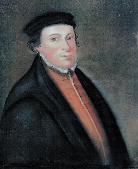 Jan de Bakker (Johannes Pistorius) (1499-1525) oil on panel 1684